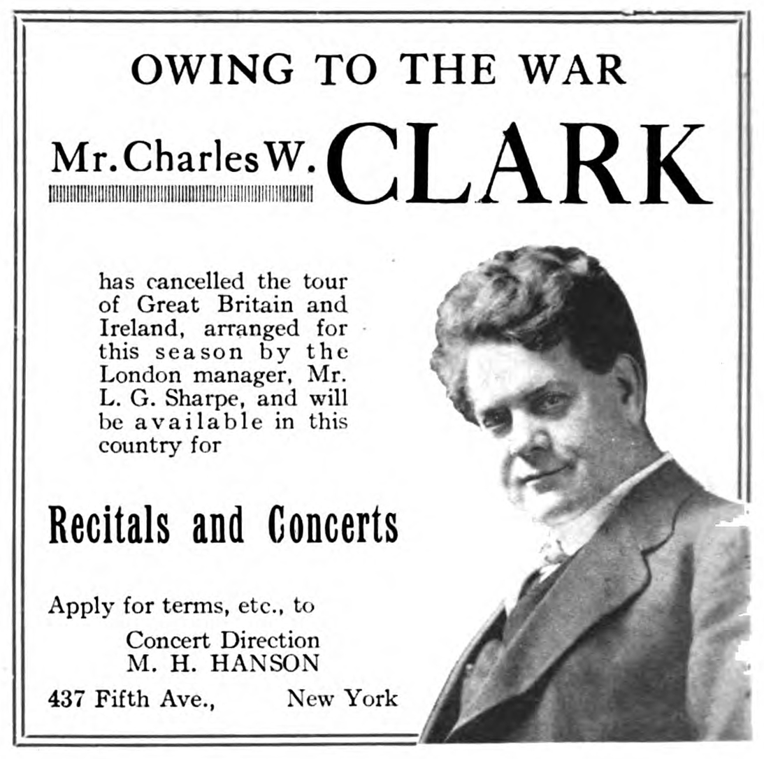 Charles W. Clark, Musical Monitor Ad 1914